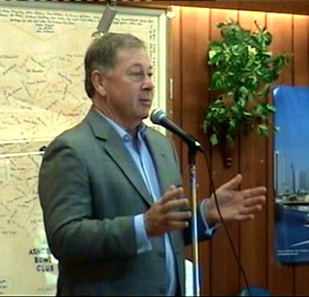 Arch Bevis MP at the Qld Day Awards, June 2007